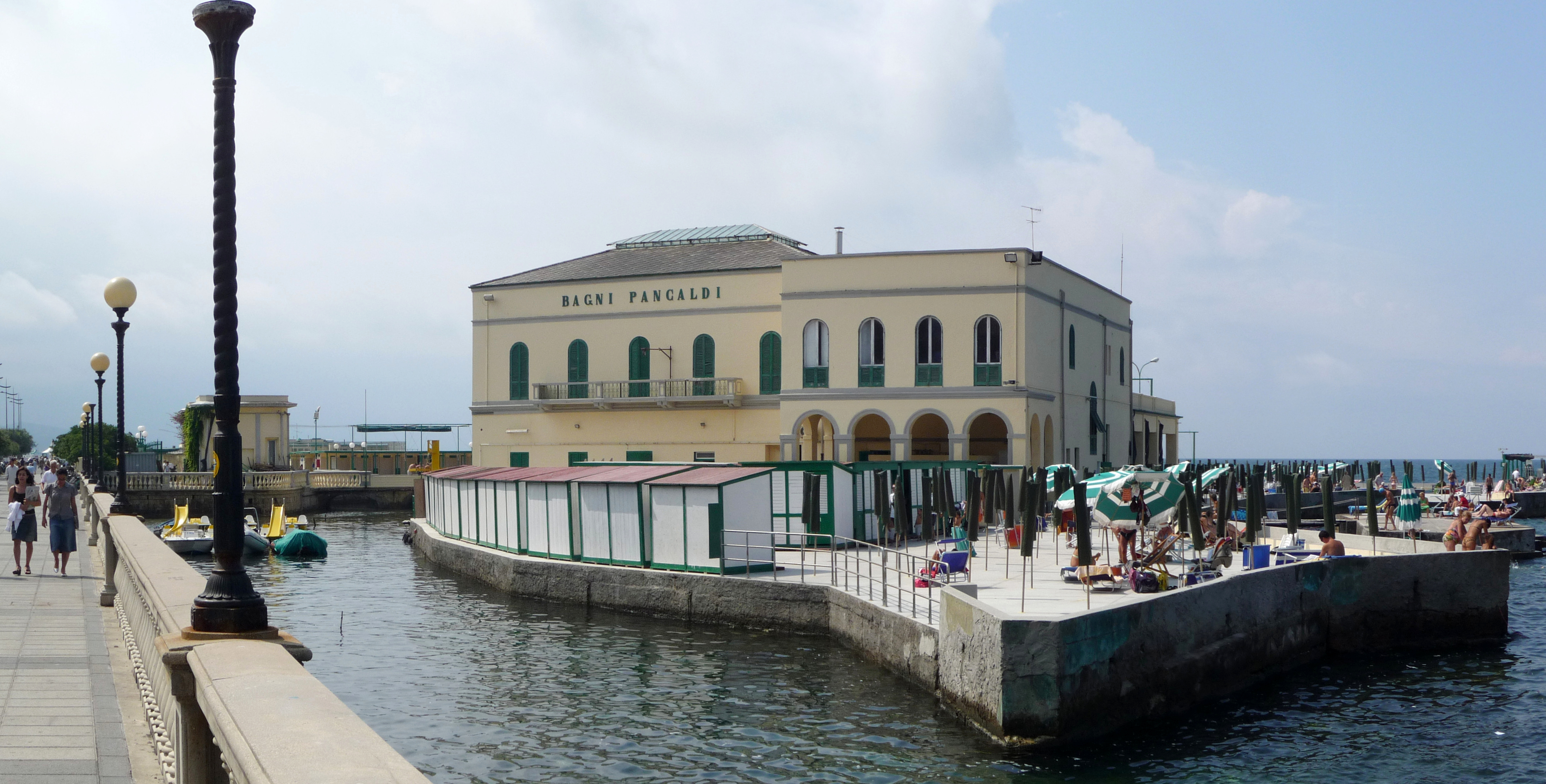 "Bagni Pancaldi", Livorno, Italy